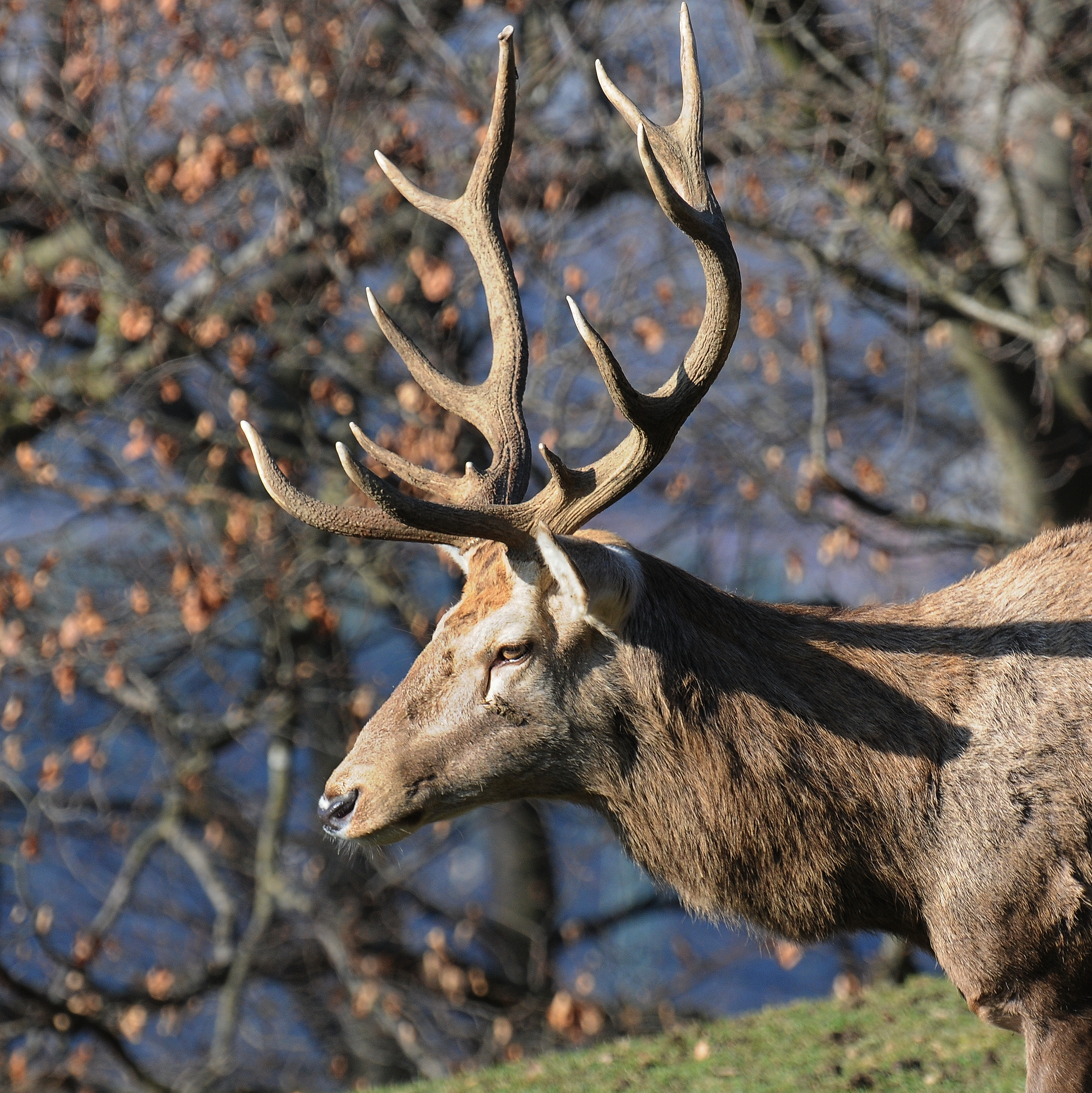 The Red Deer (Cervus elaphus) is one of the largest deer species. The Red Deer inhabits most of Europe, the Caucasus Mountains region, Asia Minor and parts of western and central Asia.